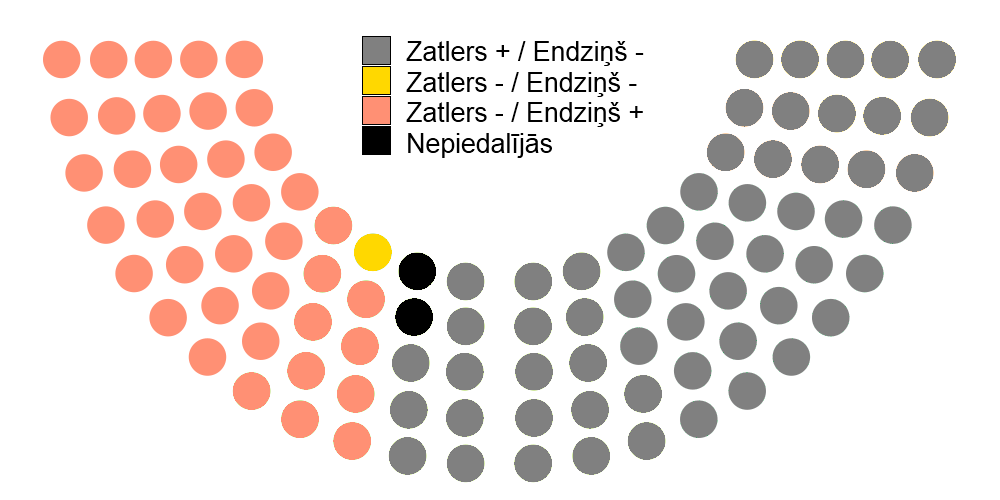 Graph showing the Saeima voting in Latvian presidential election, 2007.